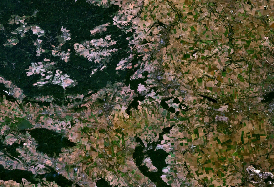 the german Landkreis Mansfeld-Südharz from above